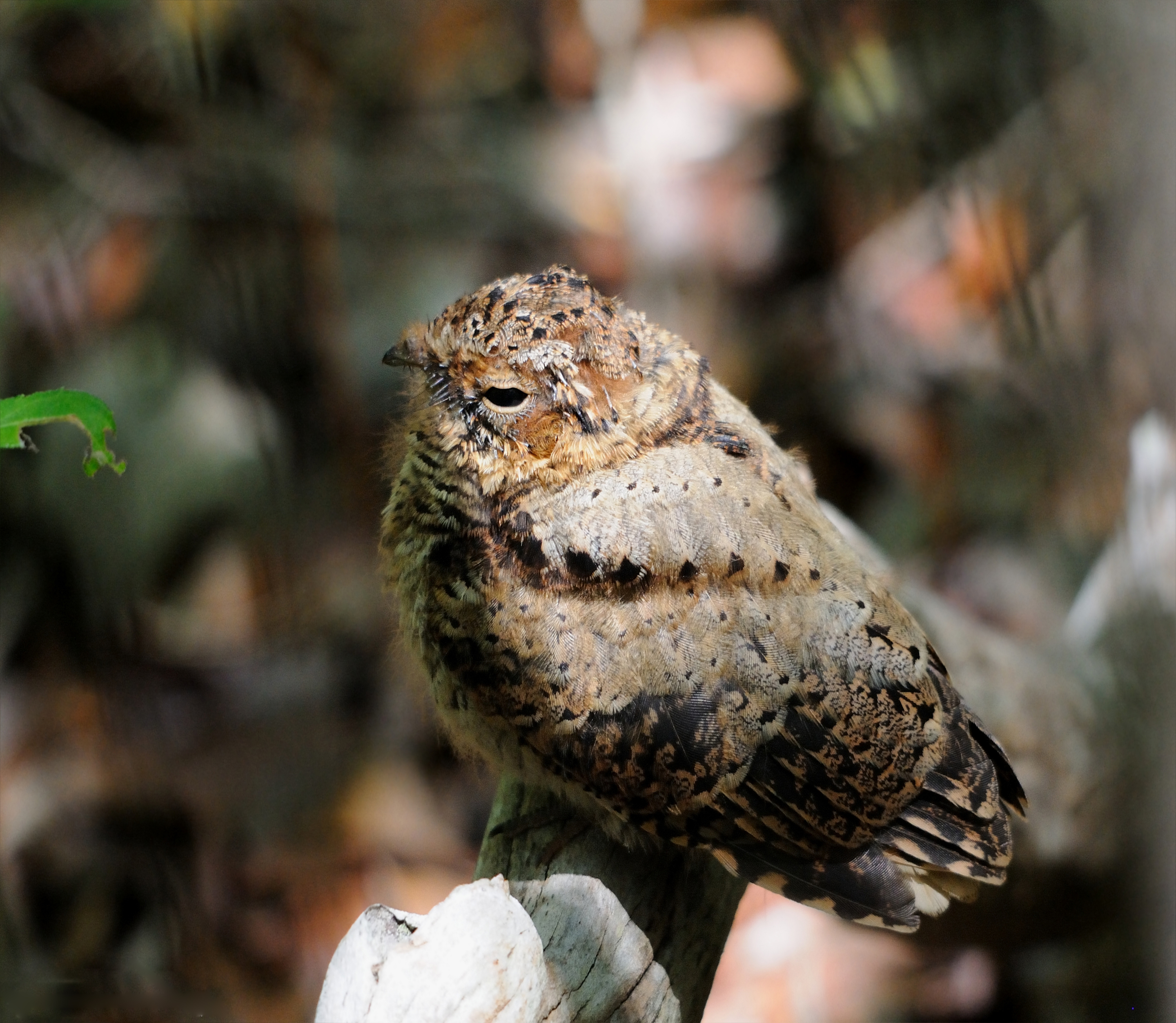 A Puerto Rican nightjar (Caprimulgus noctitherus)